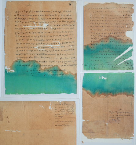 The University of Santo Tomas Baybayin Document are two 17th century land deeds written in baybayin, an ancient Philippine syllabary declared as a National Cultural Treasure